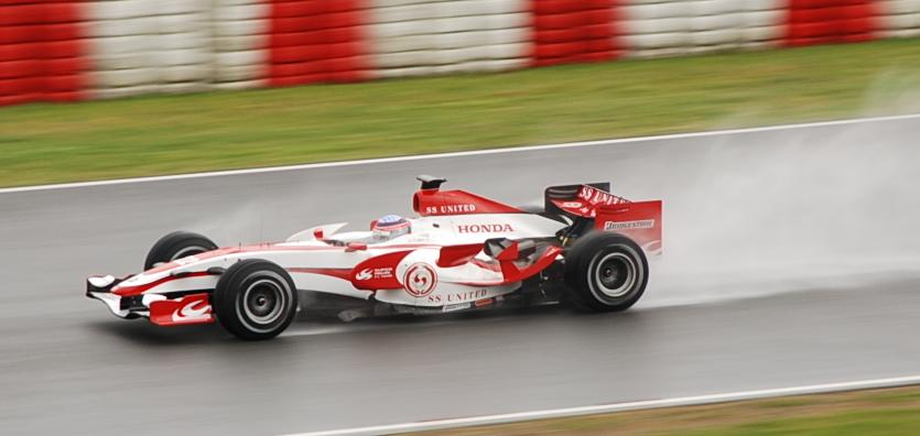 Takuma Sato testing for Super Aguri F1 at the Circuit de Catalunya, May 2007.